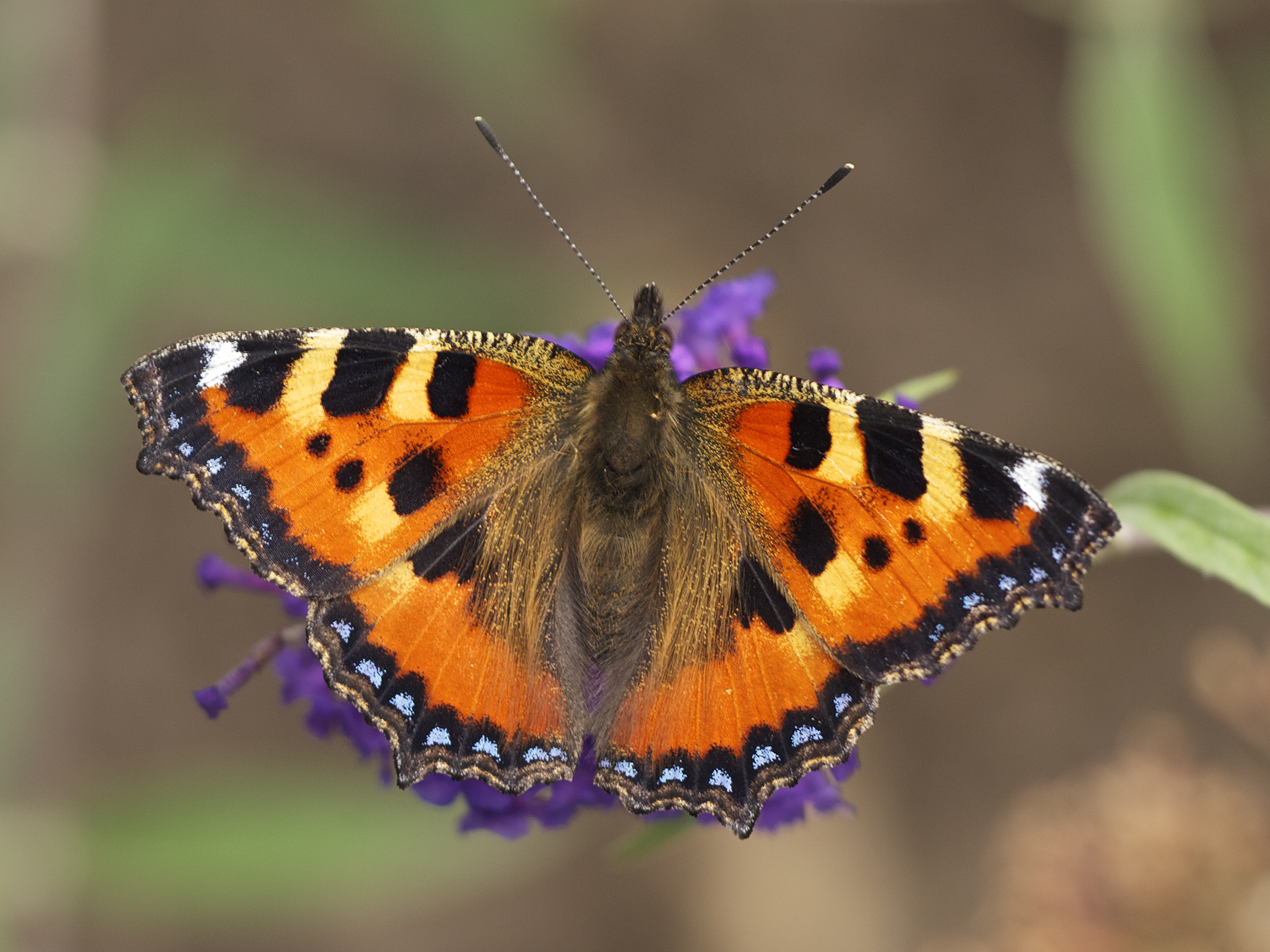 Small Tortoiseshell (Aglais urticae), Lichtenwalde, Germany